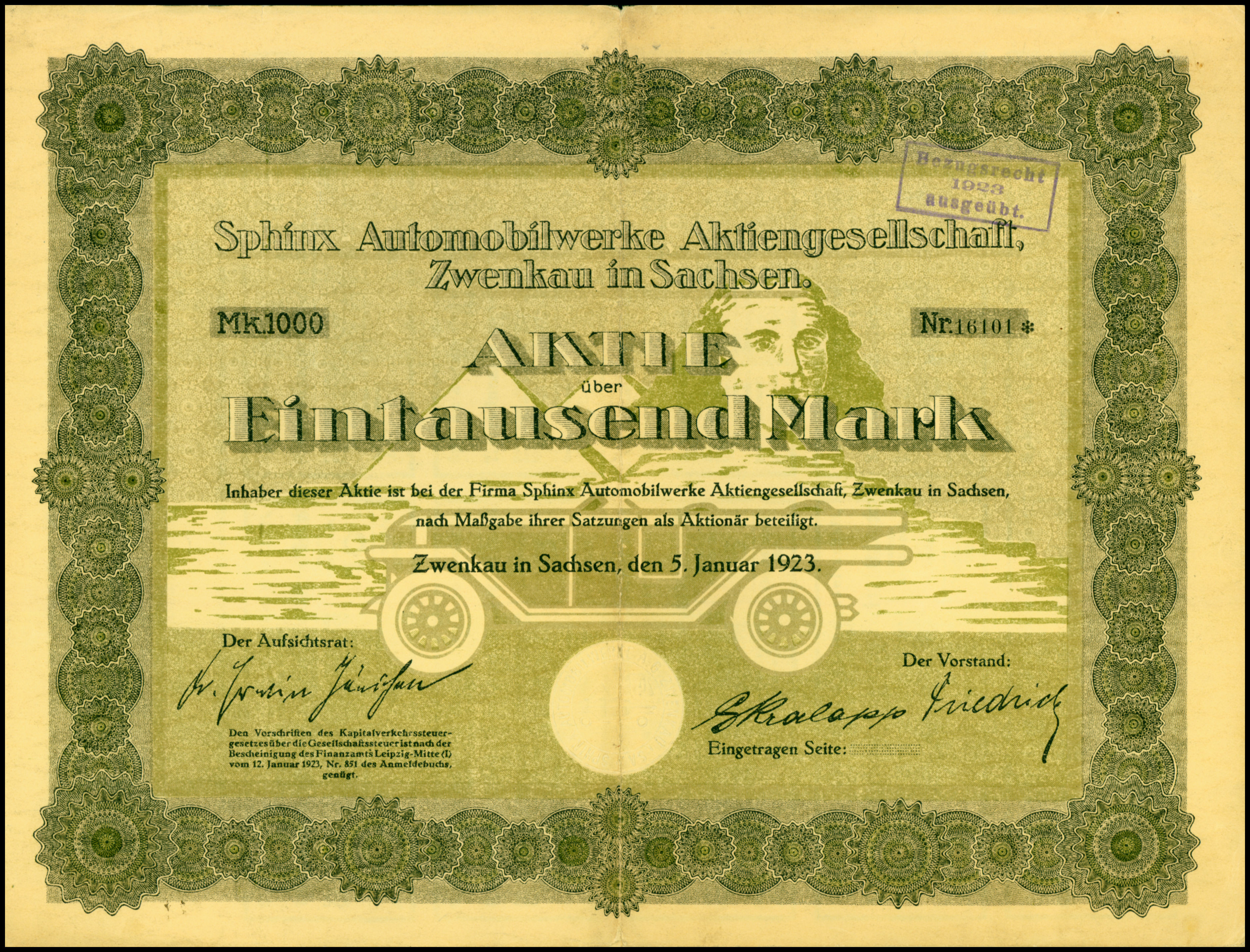 Share of the Sphinx Automobilwerke AG, issued 5. January 1923